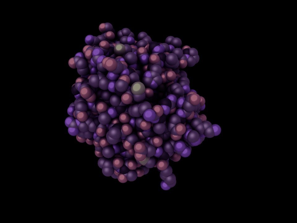 CPK coloration with slight purple shading for artistic preference